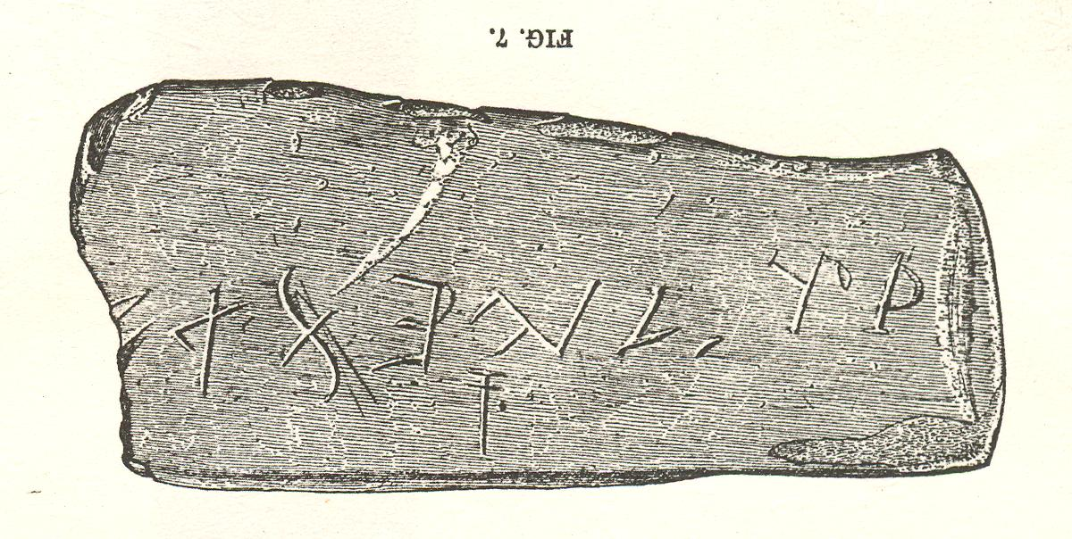 A lithograph of the Bat Creek Inscription stone, inverted from the original 1890 published orientation, showing the text disputed to be paleo-Hebrew.